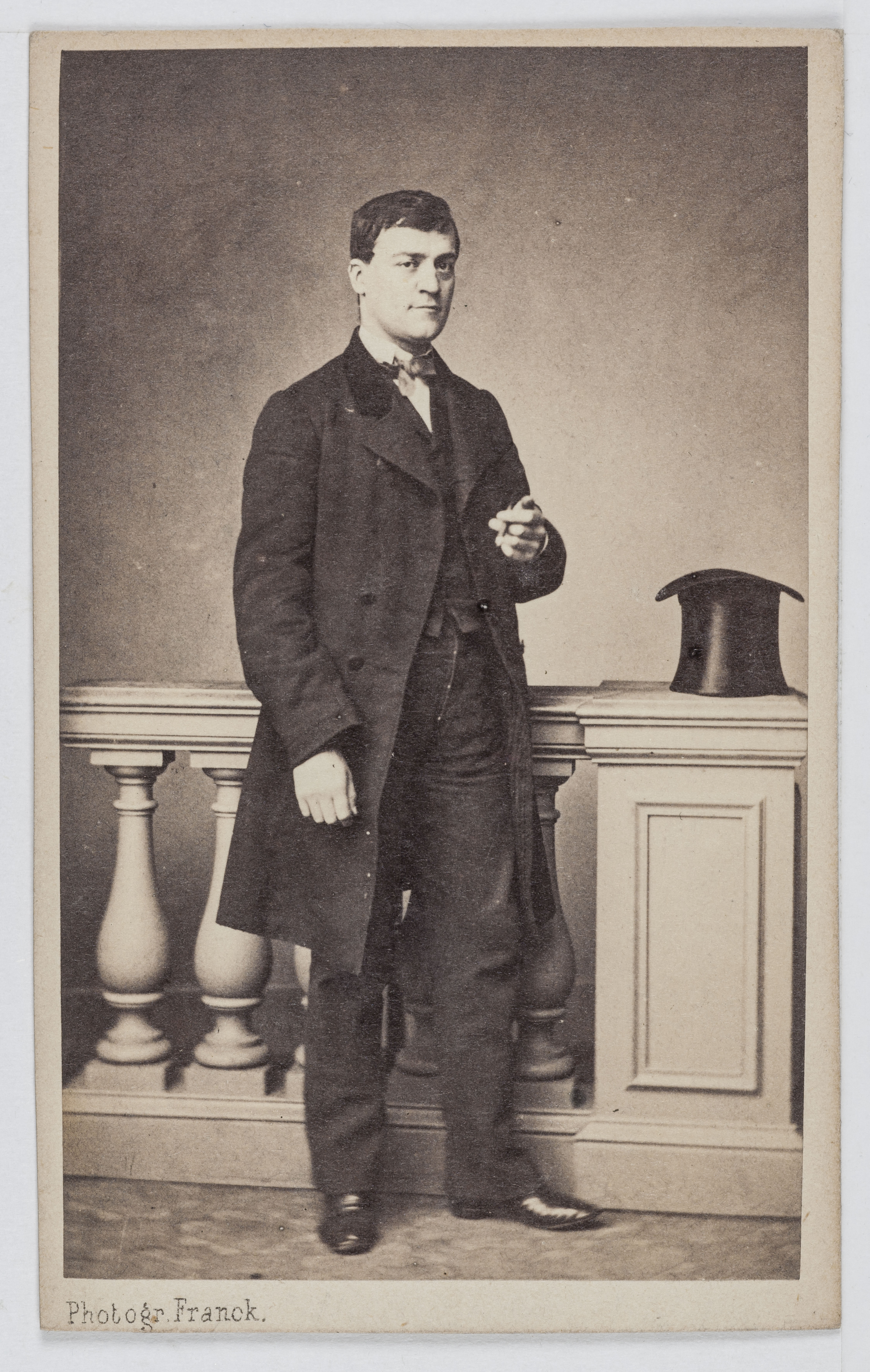 Portrait de Victor Avocat known as Tacova (fils), chanteur excentrique. Carte de visite (recto). Franck (François Gobinet de Villechole, dit). Tirage sur papier albuminé, 1860-1890. Paris, musée Carnavalet.